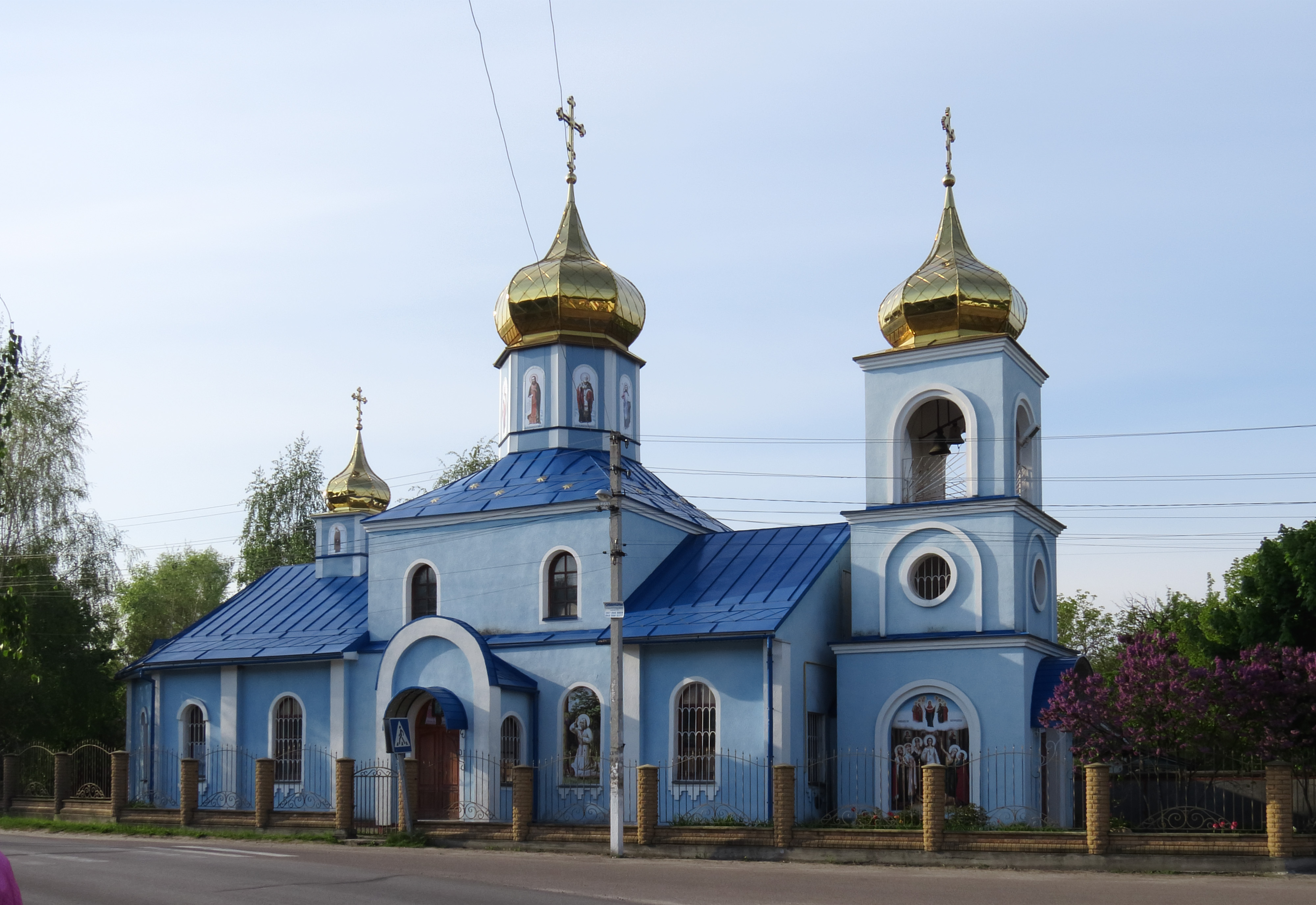 Intercession church (1908, reconstructed in 2010-s) in Pukhivka, Brovary raion, Kiev oblast, Ukraine